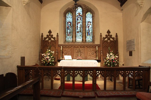 St.Germain's chancel The east window is dedicated To the Glory of God and in memory of Major Gonville Bromhead VC 24th Regiment, born 29th August 1844 died 9th February 1891 One of many of the Bromhead family of Thurlby Hall with a distinguished military career. He was immortalised in the contemporary era by his portrayal by Michael Caine in the film 'Zulu' at Rorke's Drift where his heroic actions earned him the Victoria Cross